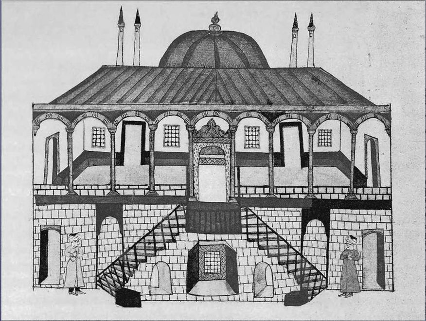 The Venetian bailo’s house, osman muniature.